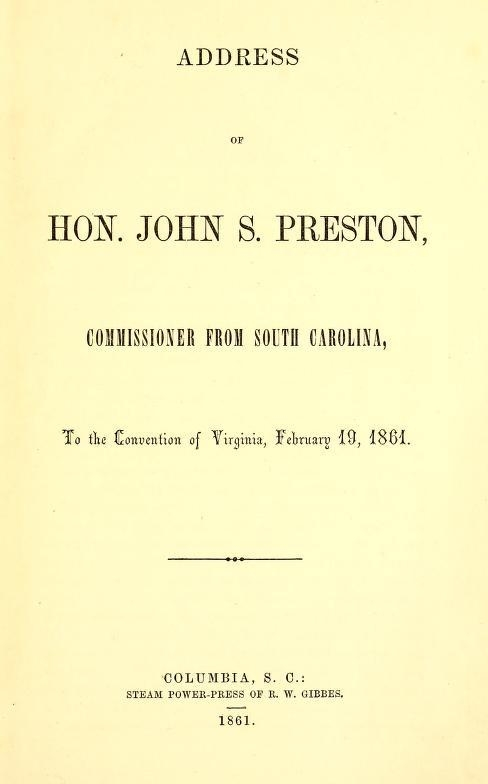 Address of Hon. John S. Preston, Commissioner from South Carolina, to the Convention of Virginia, February 19, 1861